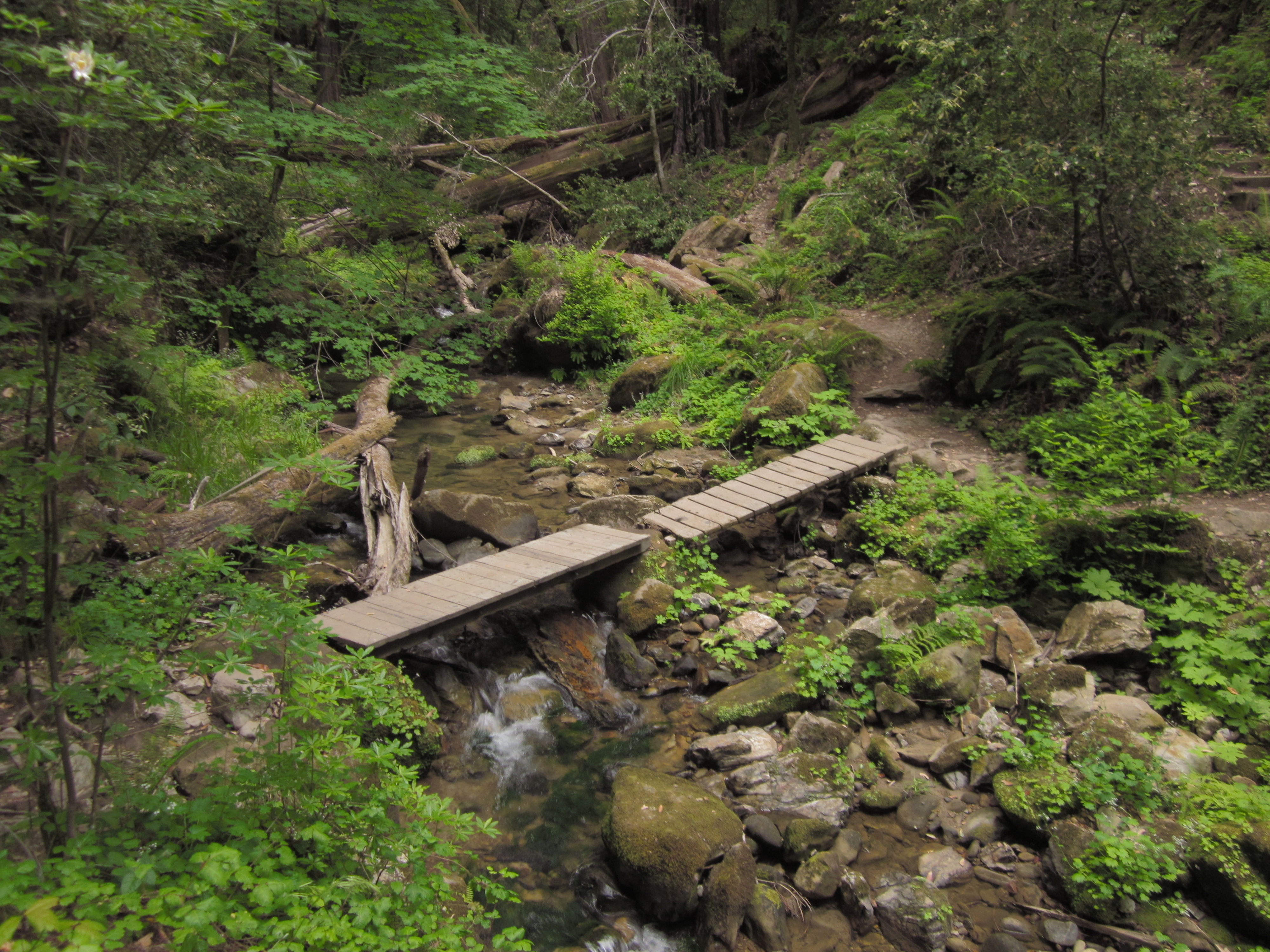 The ‘’’Skyline-to-the-Sea Trail — in the Santa Cruz Mountains, Northern California. Passing over the West Waddell Creek in Big Basin Redwoods State Park.